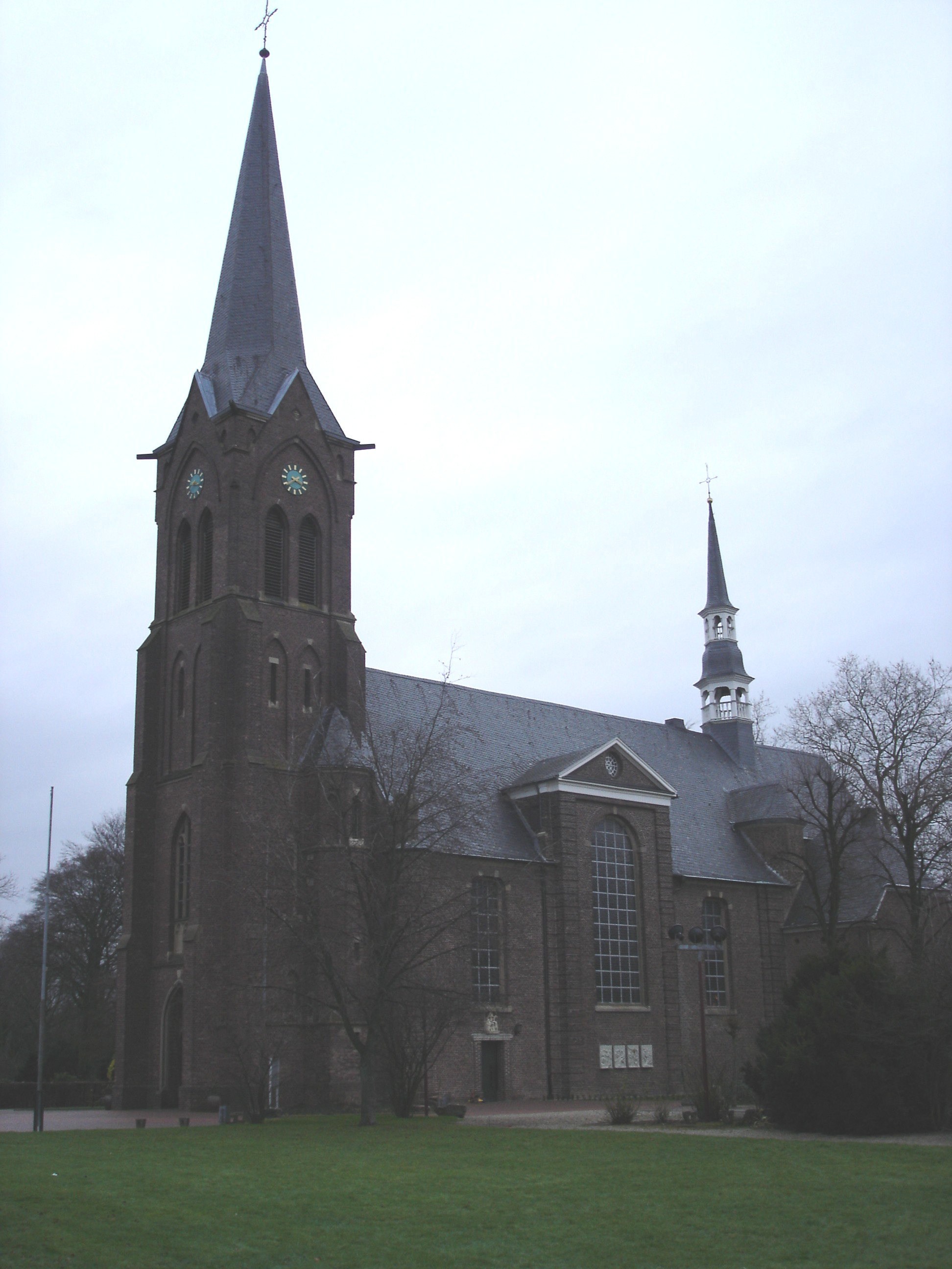 Church "Marienbaumkichen" in Xanten-Marienbaum